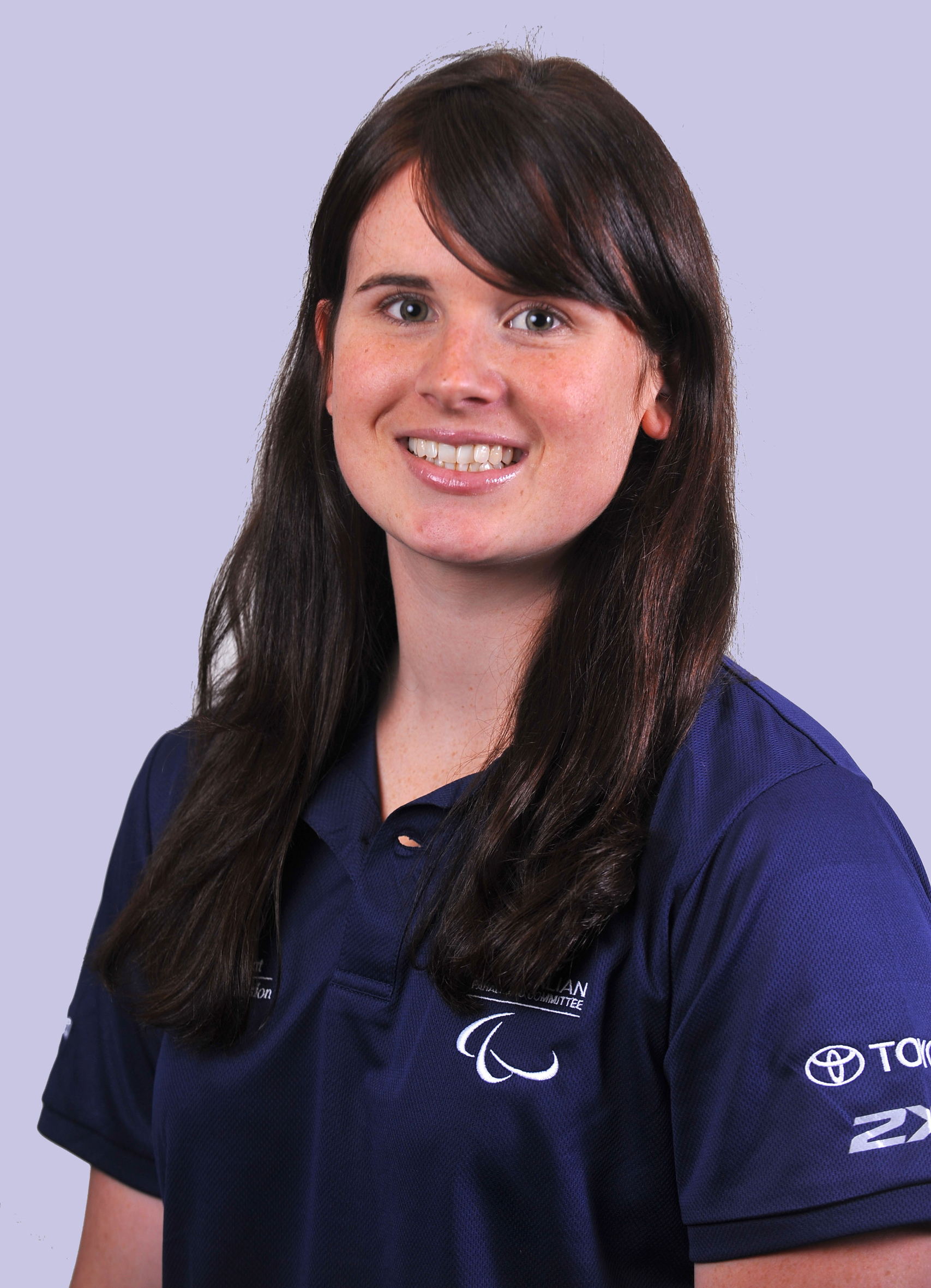 Portrait of Australian wheelchair basketballer Bridie Kean, 2012 Australian Paralympic (shadow) Team athlete